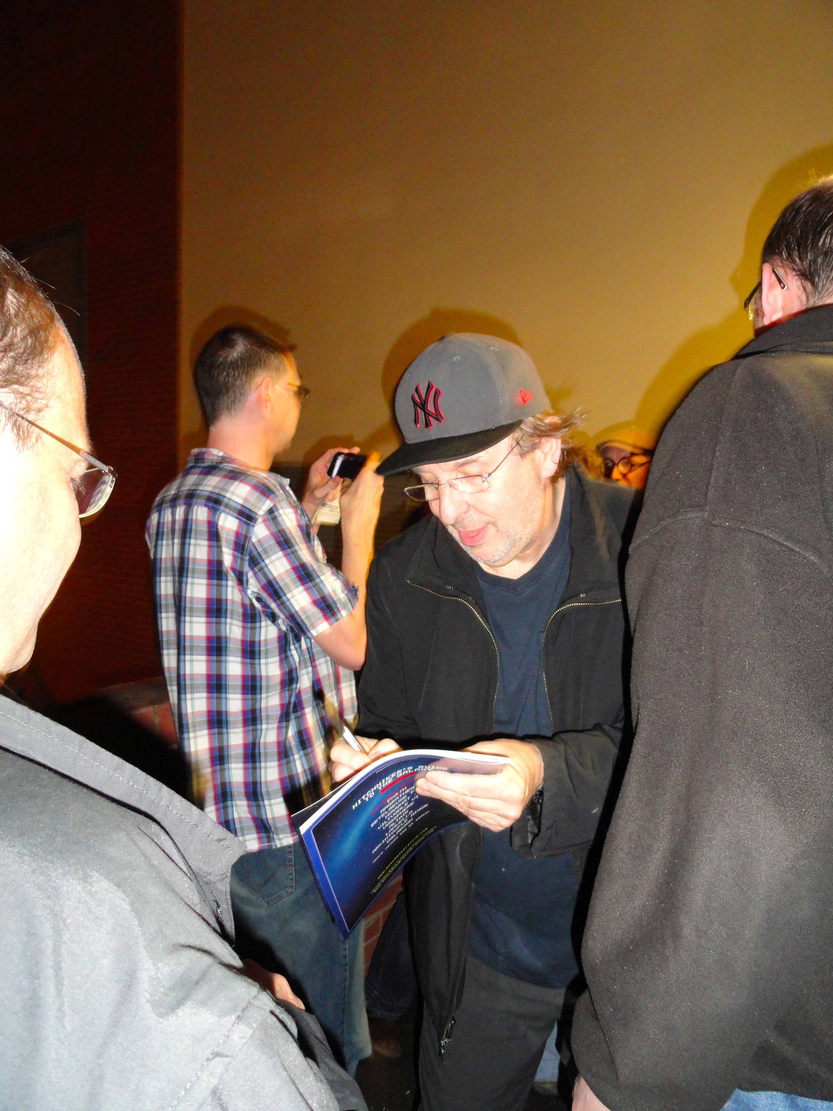 Mark Wing-Davey (Zaphod Beeblebrox)